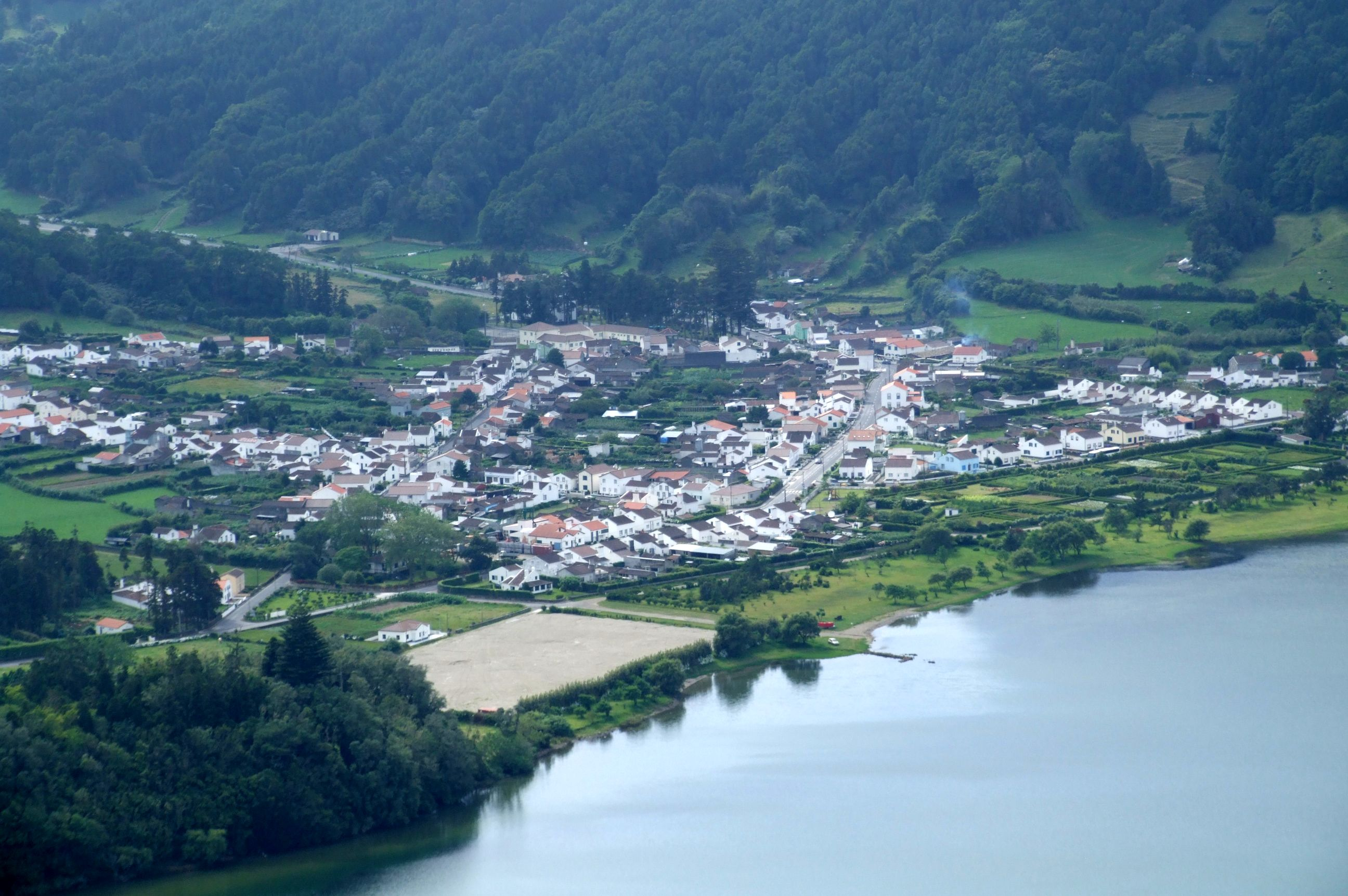 São Miguel, Sao-Miguel, Azores, Portugal